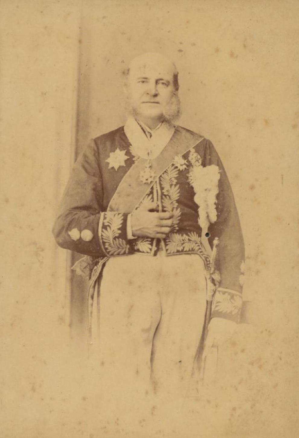 José Maria da Silva Paranhos, viscount of Rio Branco, c.1875.